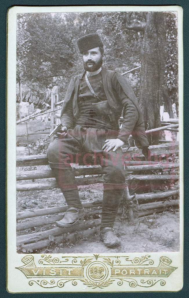 Anton Dechev Haritev by Krum Savov